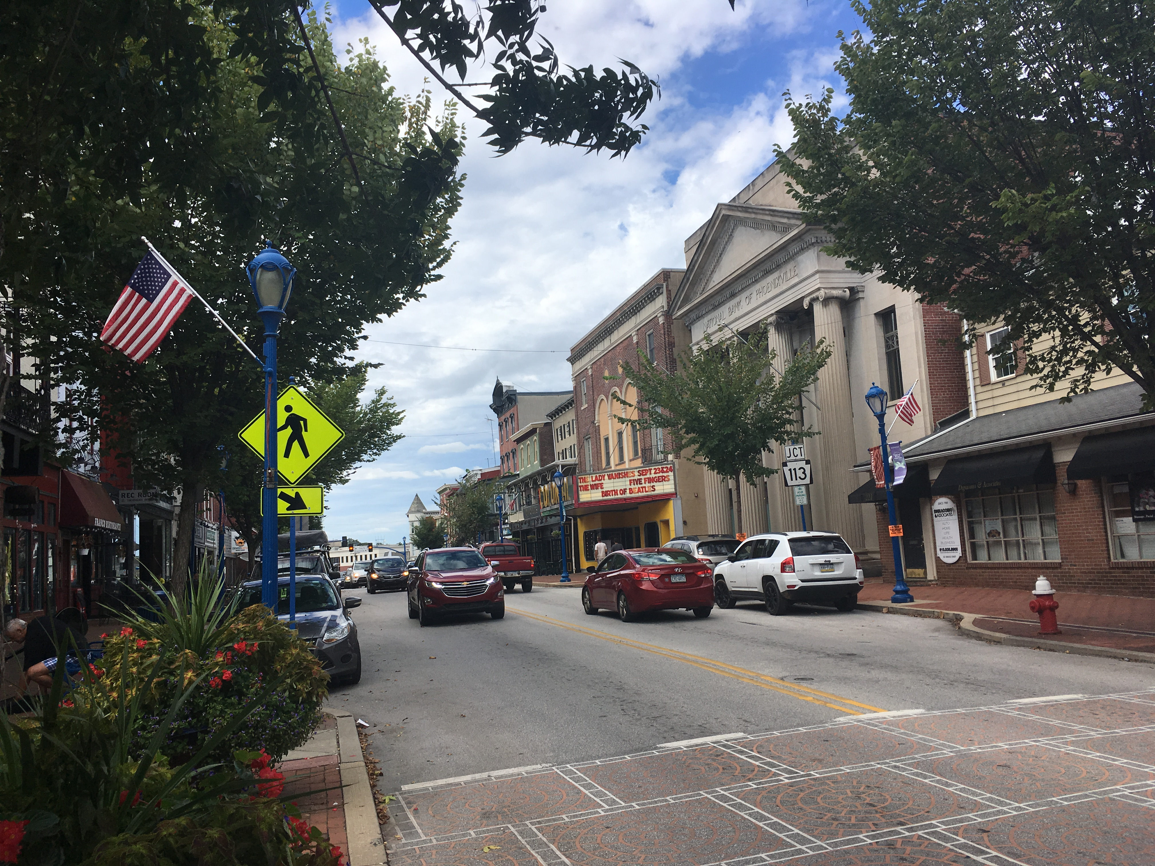 Westbound Bridge Street between Main Street and Gay Street in Phoenixville, Pennsylvania